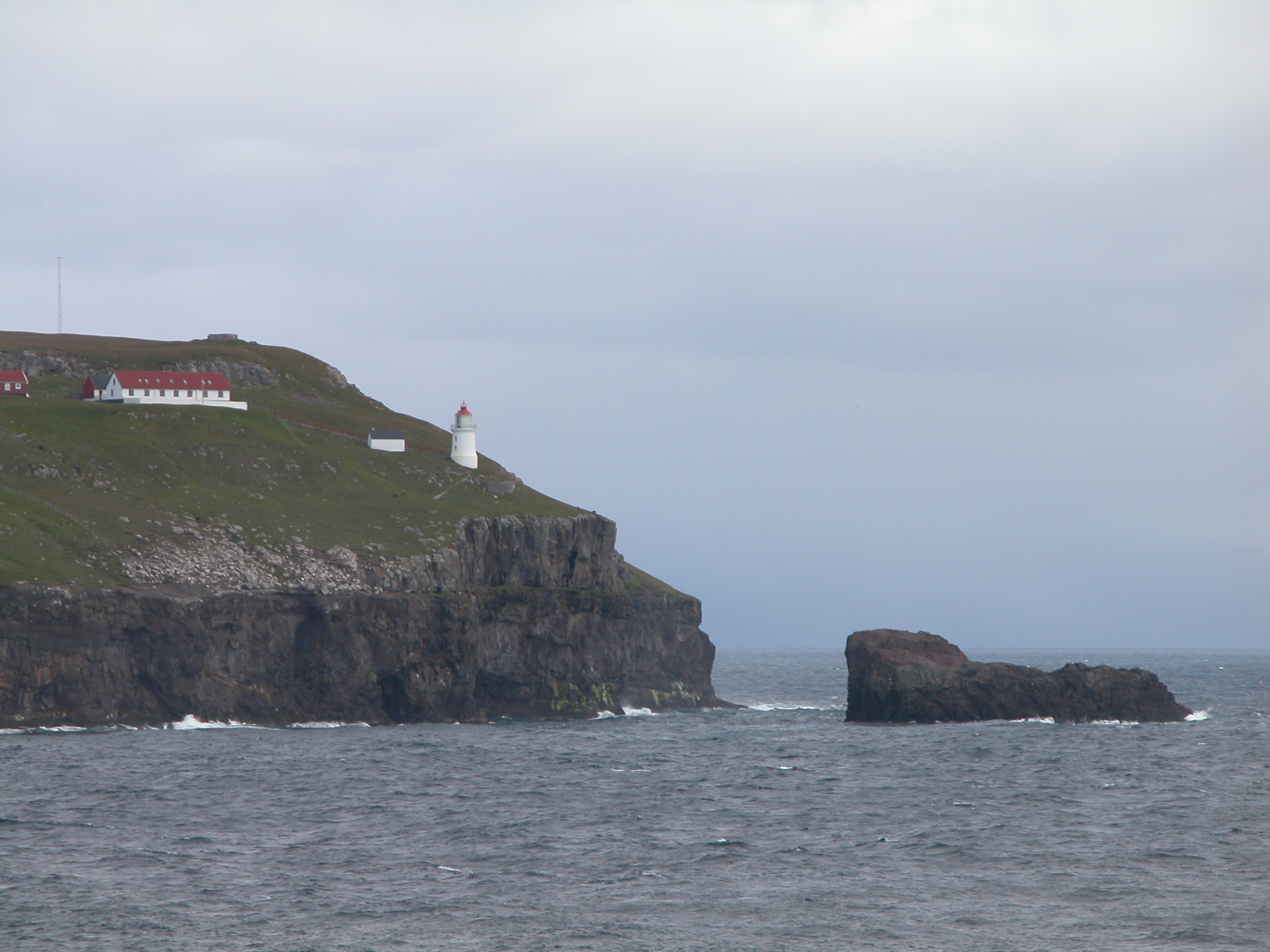 Lighthouse Nólsoy,[1] Nólsoy